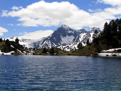 Pic de Bugatet in the natural reserve of Néouvielle in the French Pyrenees.